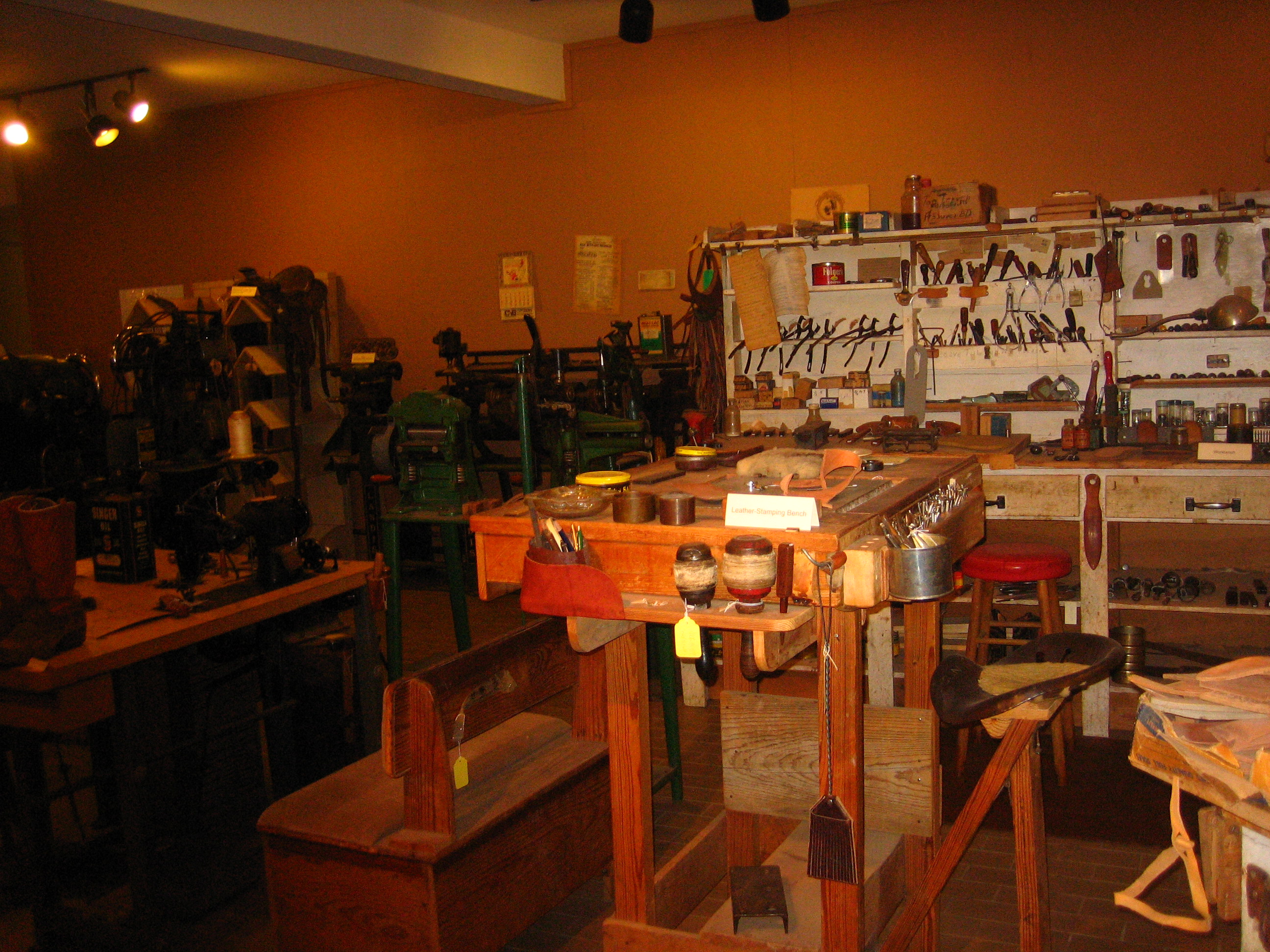 Replica of Cannon Saddle Shop at the National Ranching Heritage Center. At Texas Tech University in Lubbock, Texas.